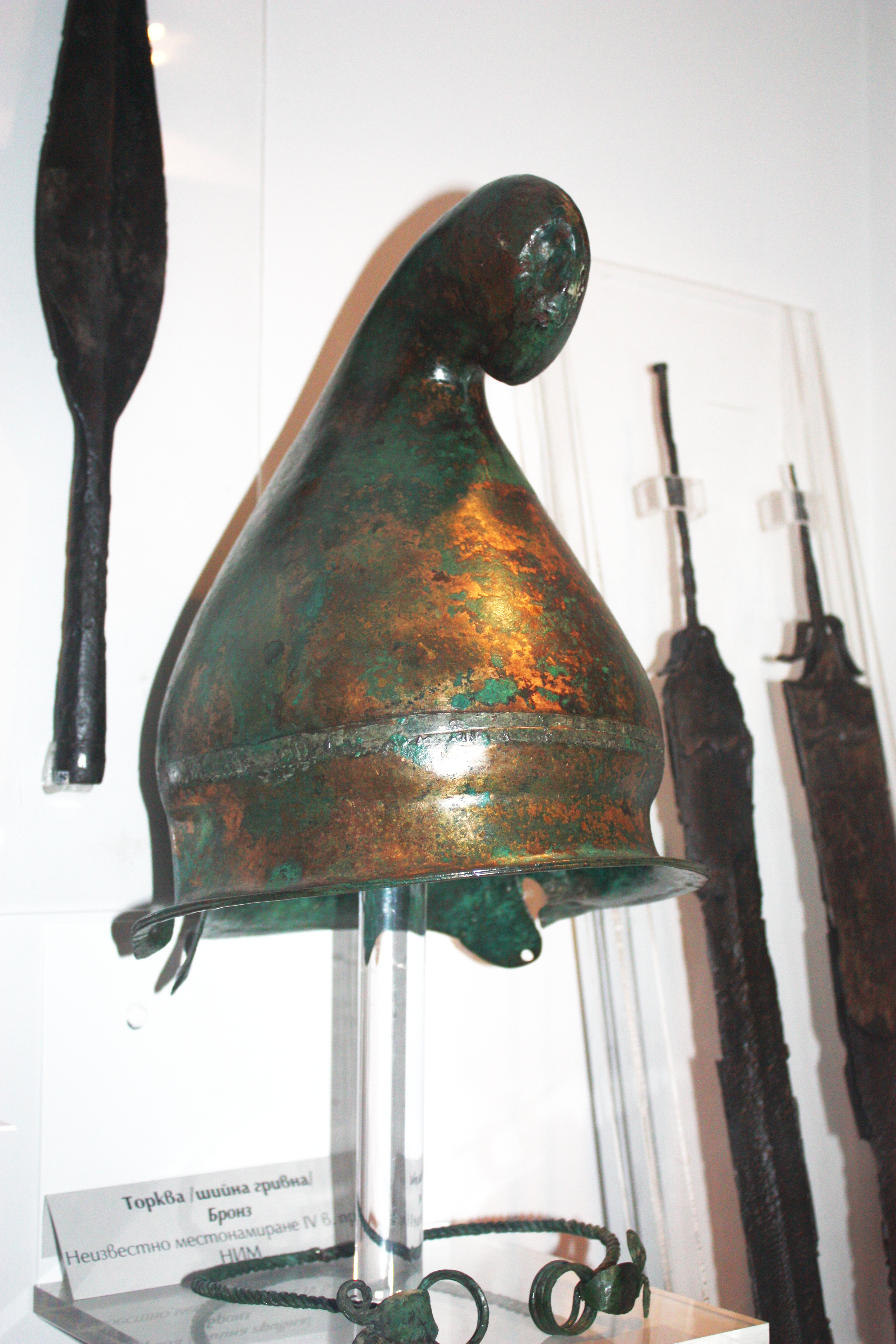 Helmet, Threcian type, bronze, 4th century B.C., stone tomb in mound #81, Shipka. National History Museum, Bulgaria, Sofia, kvartal Bojana